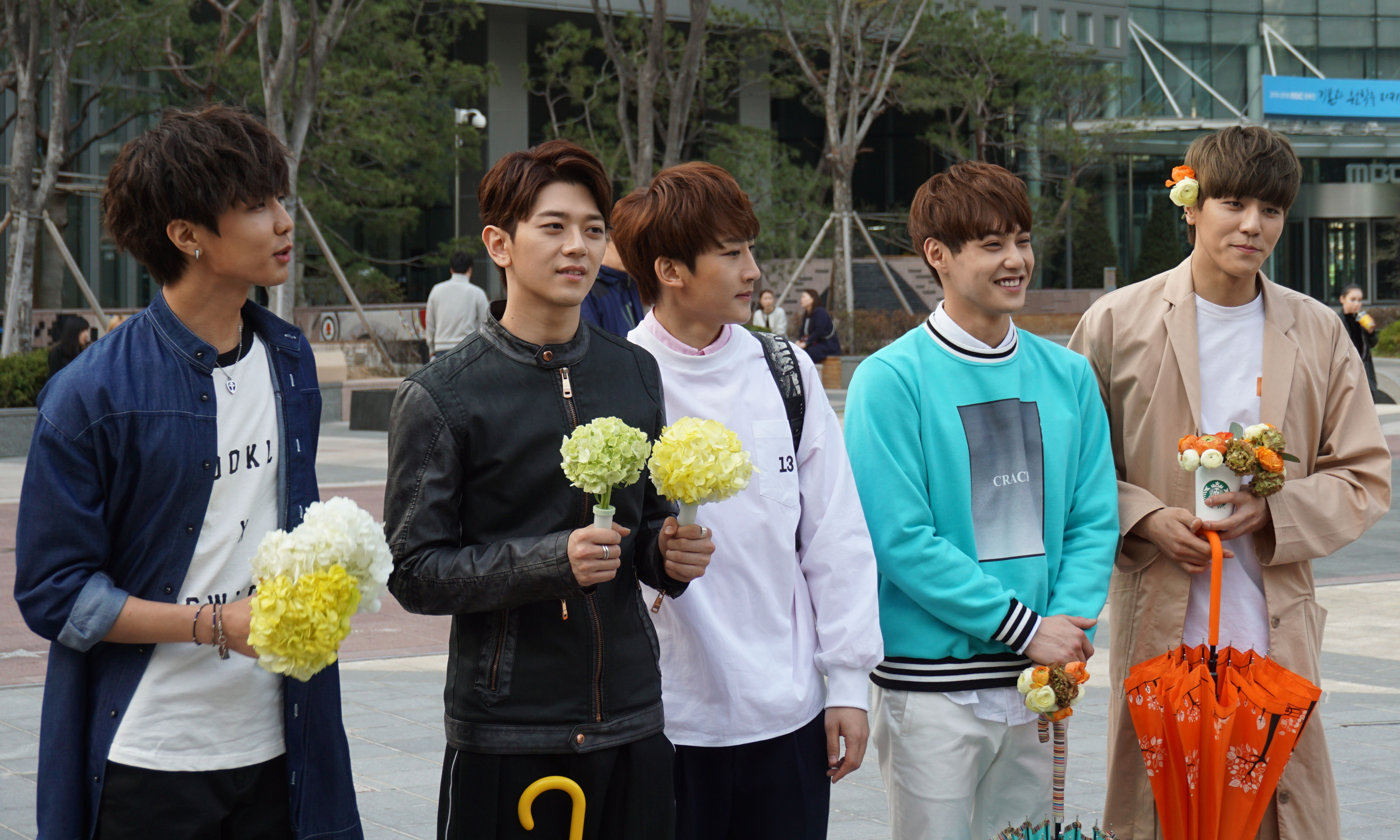 JJCC at the Digital Media City complex on April 12, 2015.